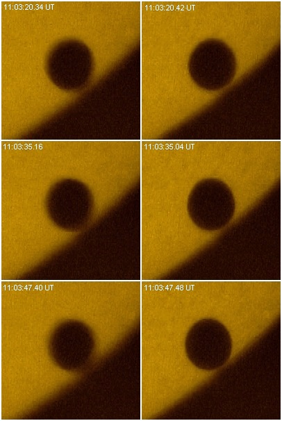 Black Drop Effect: Individual images extracted from a video sequence of the transit of Venus on June 8, 2004. The individual snapshots were obtained at nearly the same moment, and images with "bad" (left) and "good" (right) image sharpness (due to turbulences in the Earth's atmosphere) are compared. It is clear that the "black drop" phenomenon is more pronounced in the "bad" images. All images were taken within half a minute near the egress of Venus from the solar disc, and the "good" and "bad" images in each row were taken within a fraction of a second. (Note the timestamps in the image.)